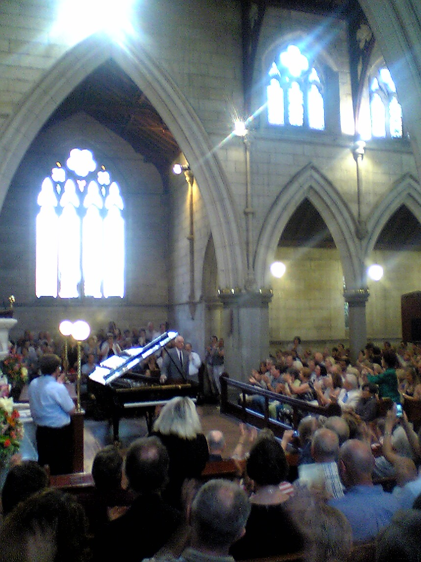 Roger Woodward performing at the Hunter Baillie Memorial Presbyterian Church, Annadnale, Sydney, in aid of the church restoration fund, 21 November 2010.